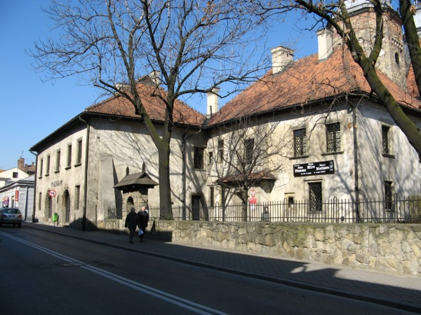 Gothic House in Nowy Sącz, PL